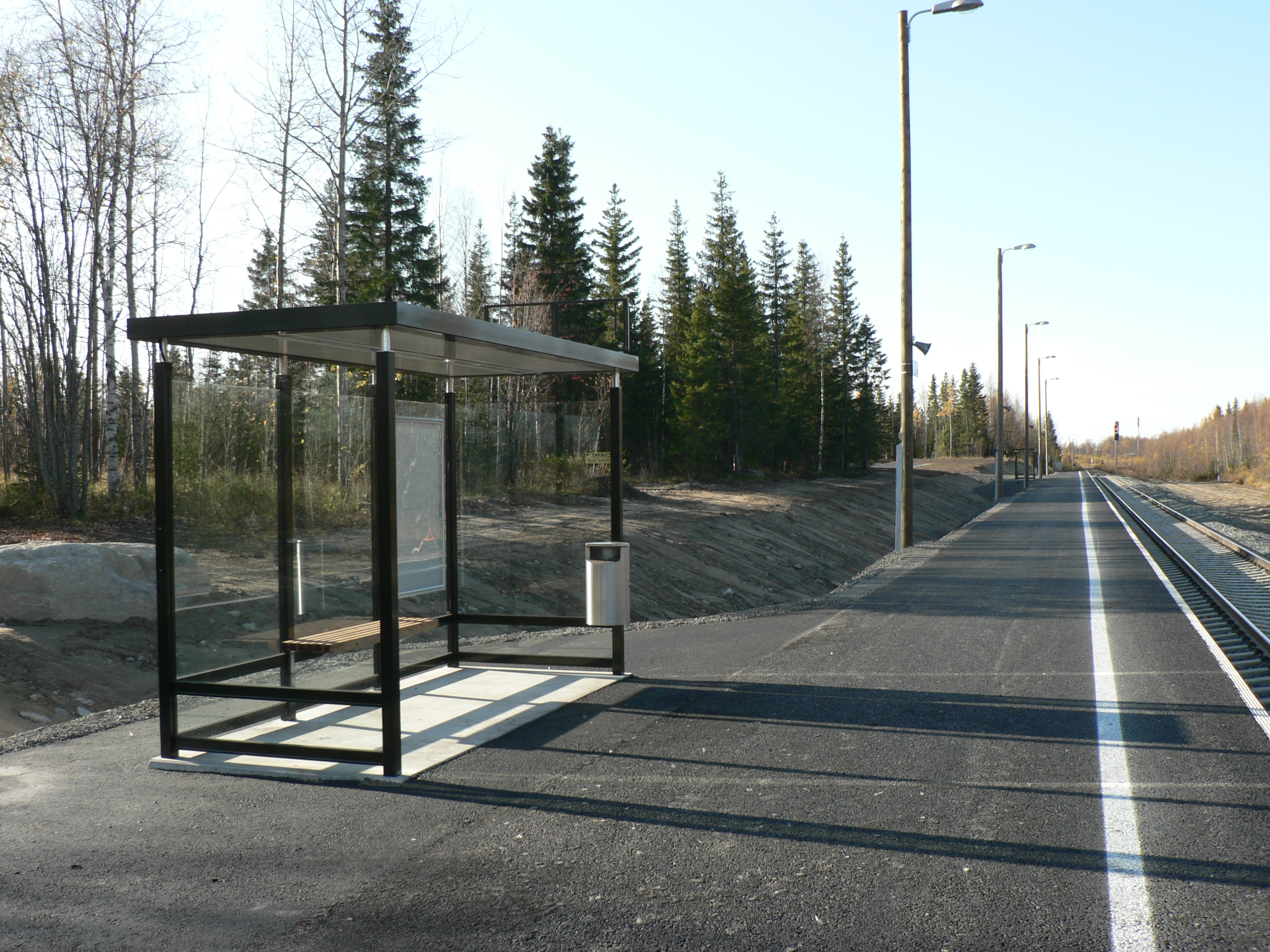 A railway stop Tornio-Itäinen (abbrev. Tri) in Tornio, Finland